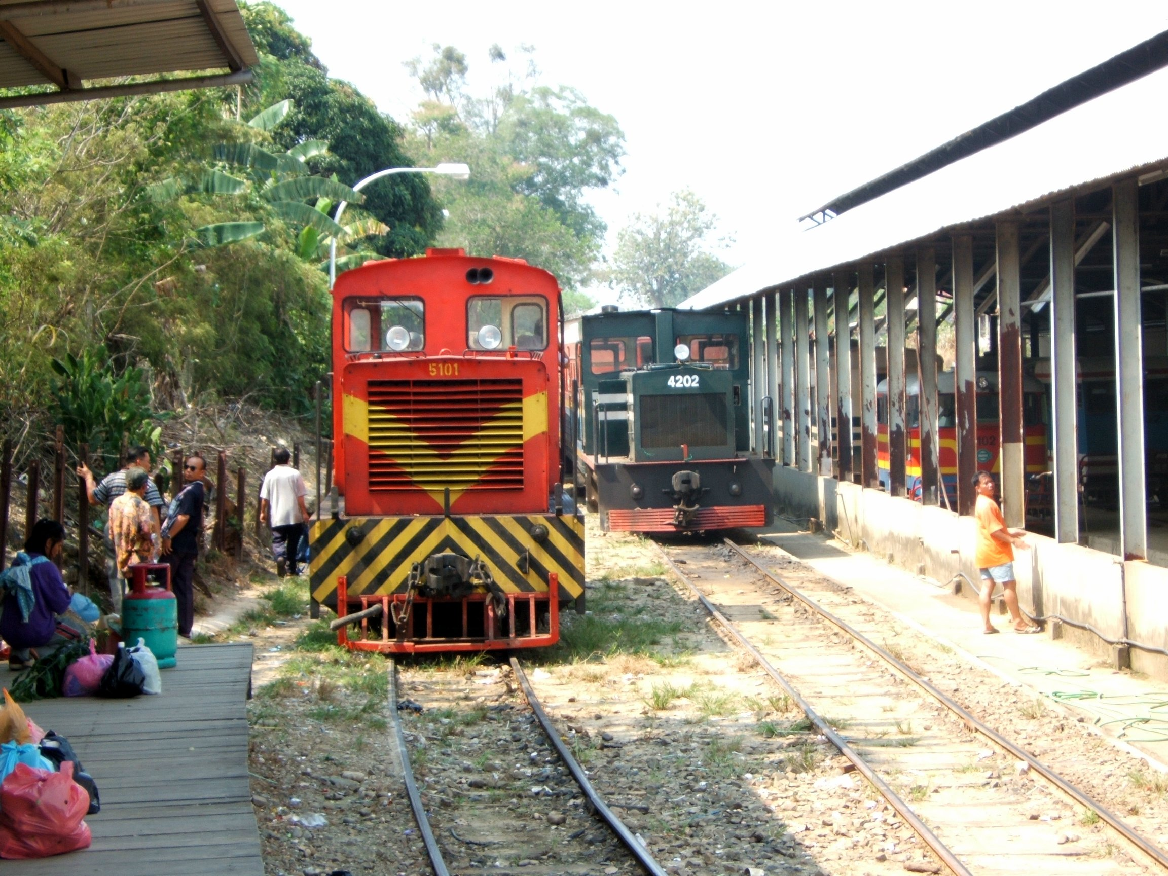 Tenom, Sabah, Malaysia Diesel locomotive 5101&4202